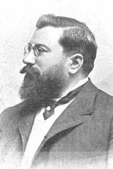 Juan Vazquez de Mella as pictured by La Ilustració catalana 20.05.1906